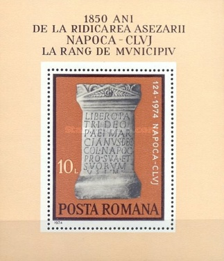 1974 The 150th Anniversary of Cluj